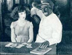 Still from the American comedy short Upper and Lower (1922) with Betty May and Lee Moran in blackface, on page 62 of the April 1922 Film Fun. This is from an apparently lost film. It was common for American films to use white actors in blackface for black roles until the late 1930s, although in this film the use of blackface was the film's "comic" element were the Moran character violated then-societal racial norms as a white man disguised as a black man. Still caption: He oversteps the lines of his [railroad porter] job and his new color and is in danger of starting a race riot.